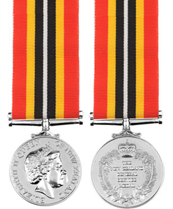 NZGSM 2002 (Timor-Leste) Obverse and reverse.